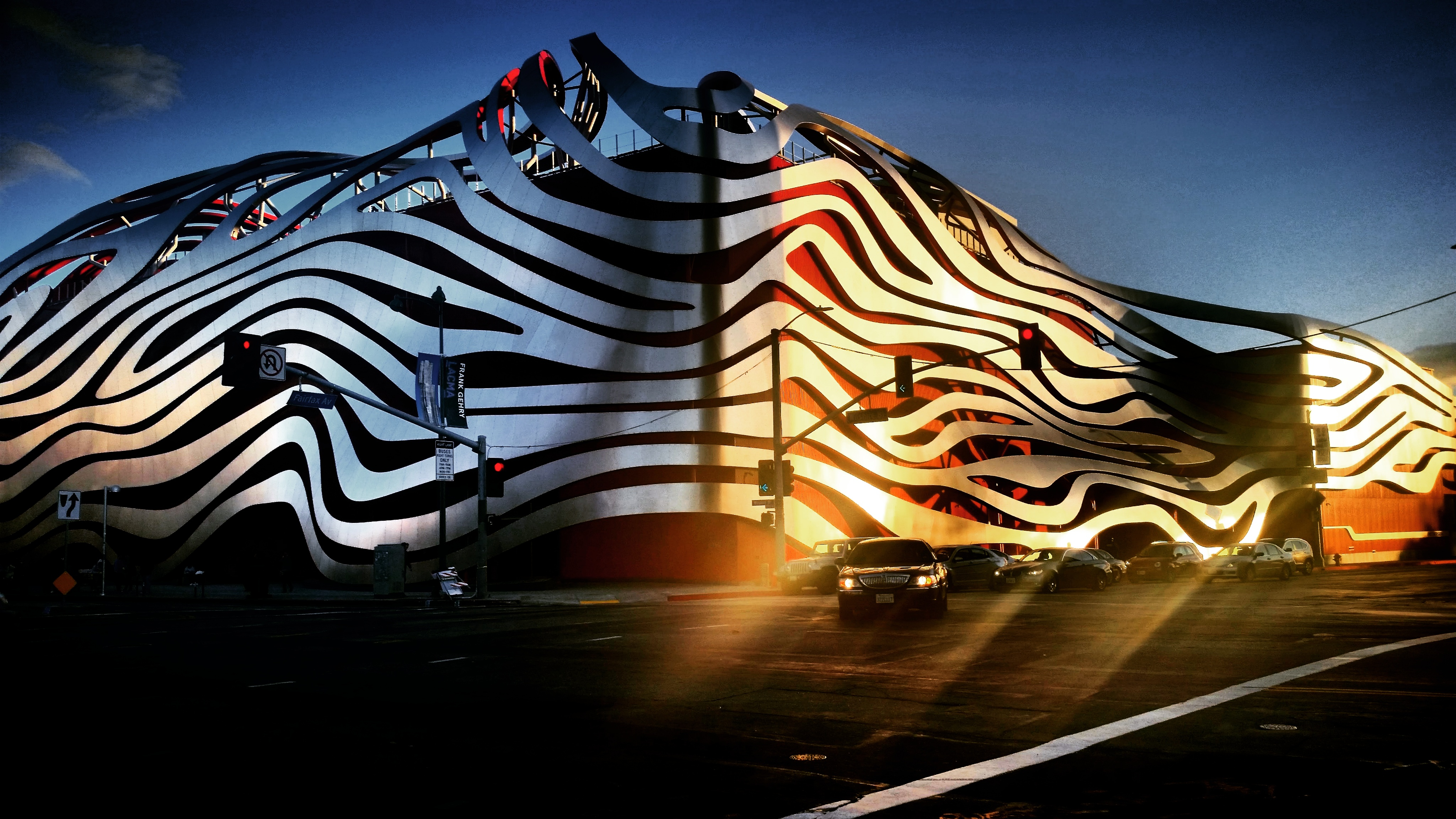 Petersen Automotive Museum on Wilshire Blvd., in the Miracle Mile District of Los Angeles, California 2017